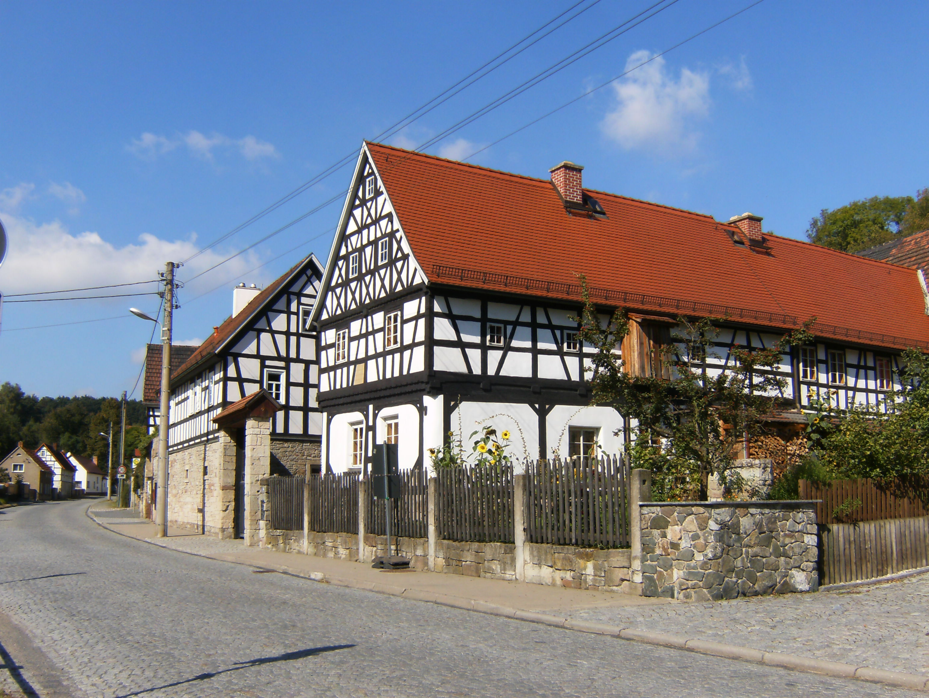 Timber framing in Kraftsdorf in Landkreis Greiz (Thuringia.